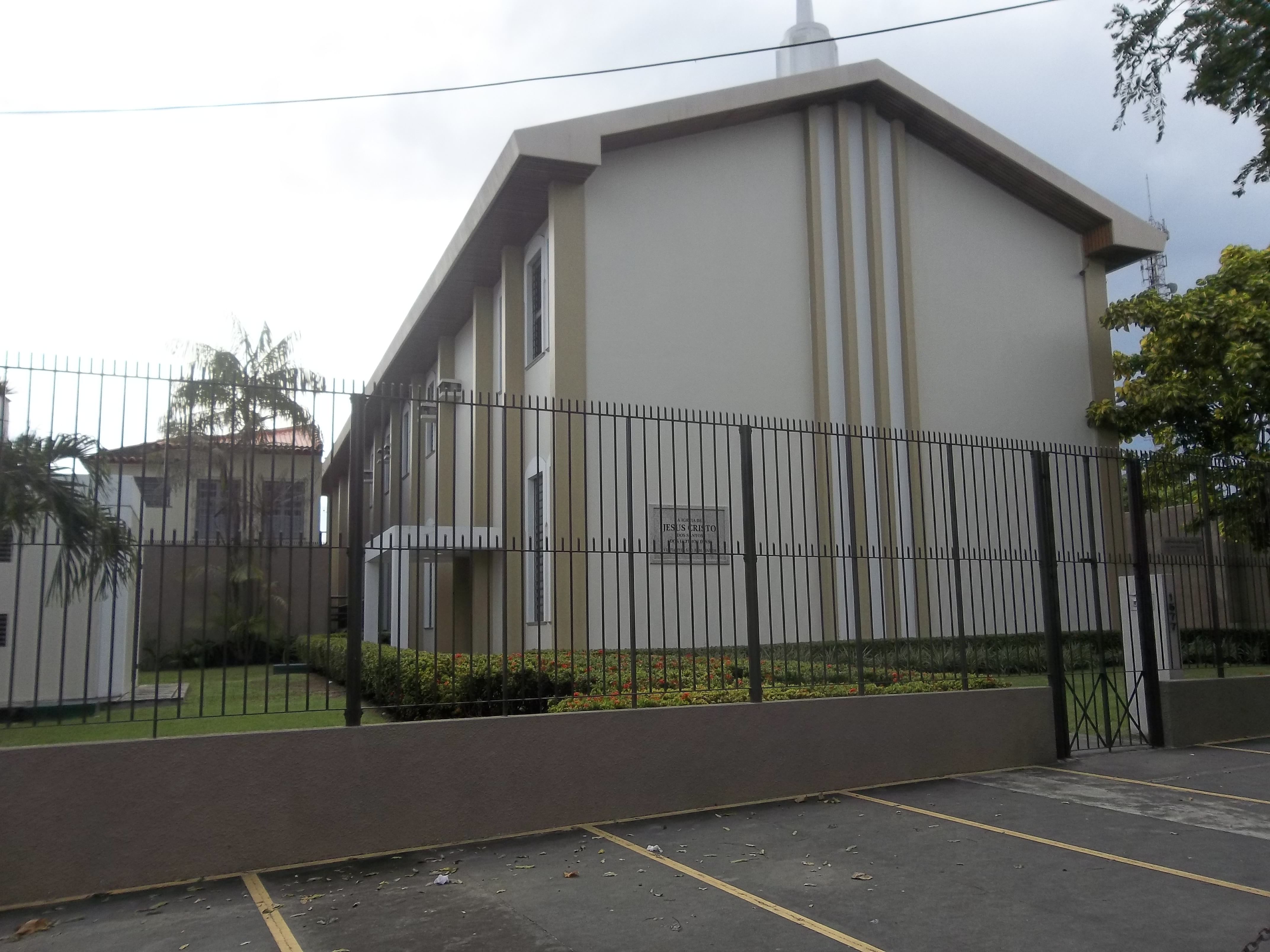 A meetinghouse of The Church of Jesus Christ of Latter-day Saints in Manaus, Amazonas, Brazil.